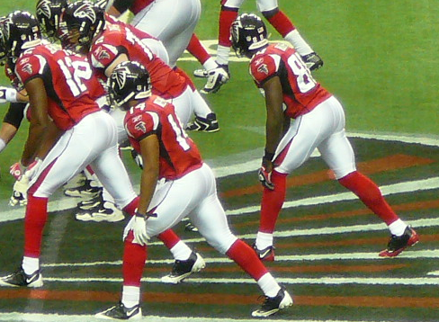 Michael Jenkins (American football), Sam Baker (offensive tackle), Eric Weems and Marty Booker; If used somewhere other than Wikipedia, Nelson, by name.